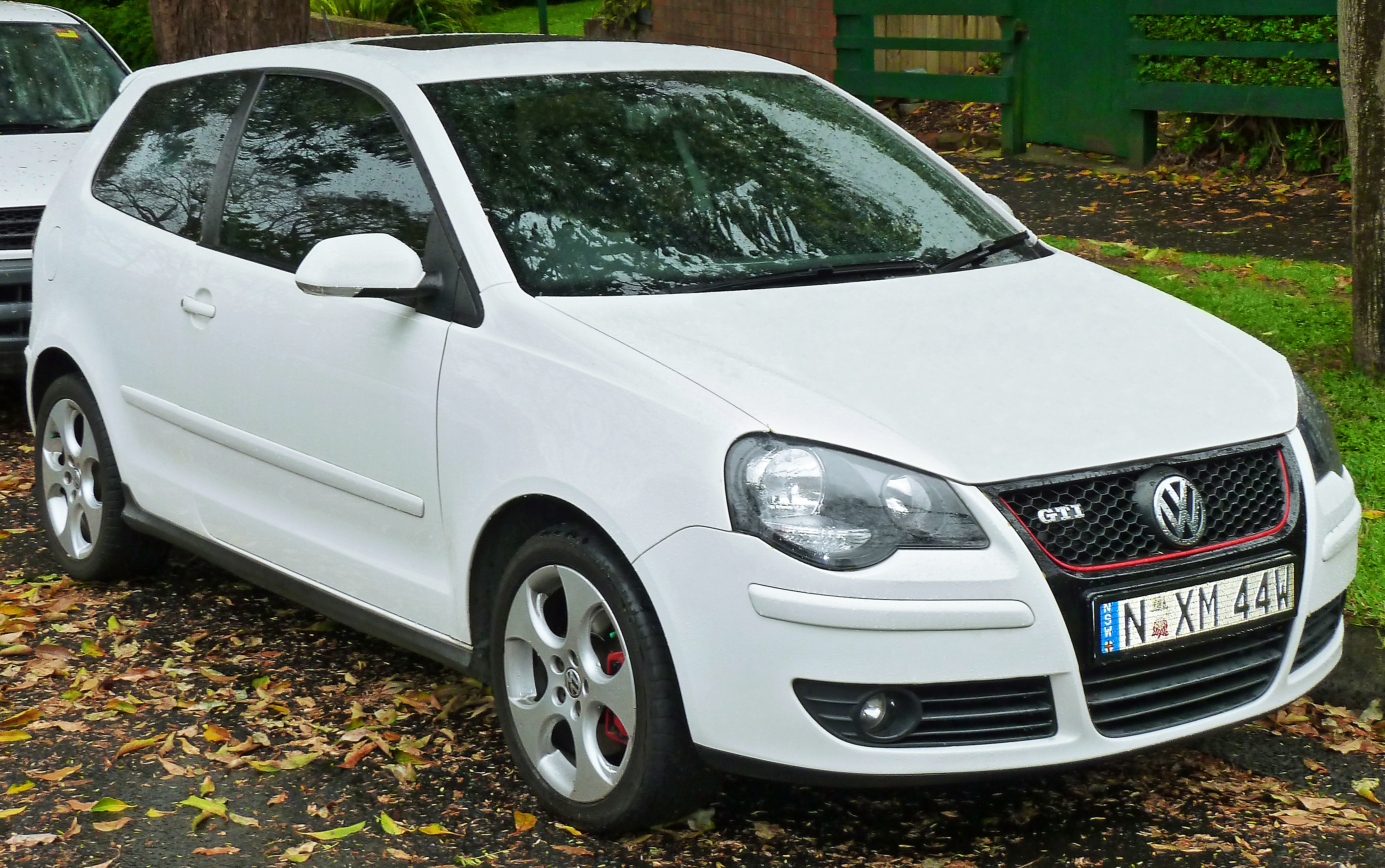 2005–2010 Volkswagen Polo (9N3) GTI 3-door hatchback. Photographed in Roseville, New South Wales, Australia.